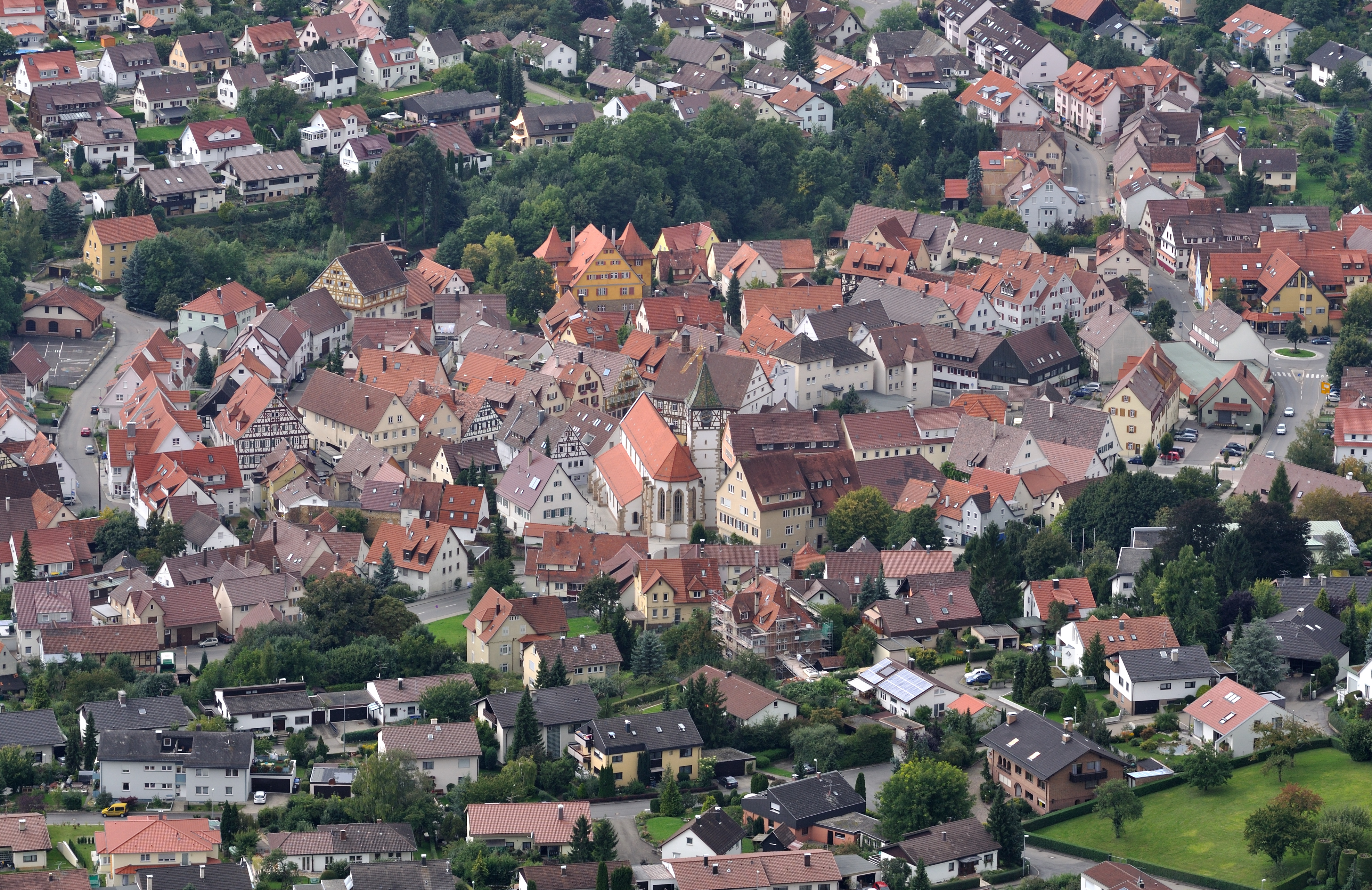 Neuffen city centre as seen from Burg Hohenneuffen.